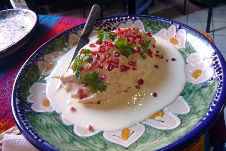 Chili stuffed with minced meat and fruits, served with nogada sauce and decorated with pomegranate.